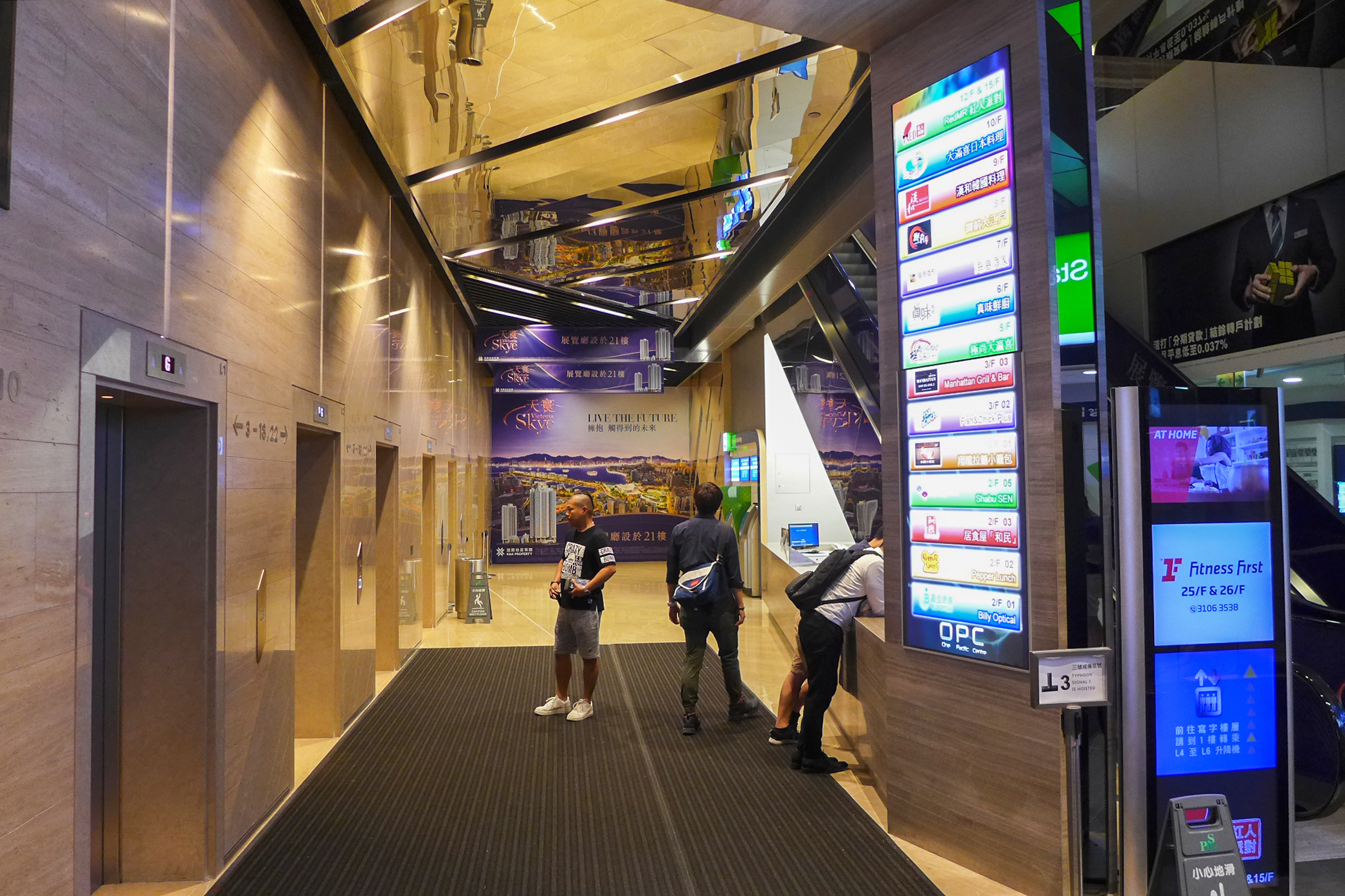 One Pacific Centre Lobby